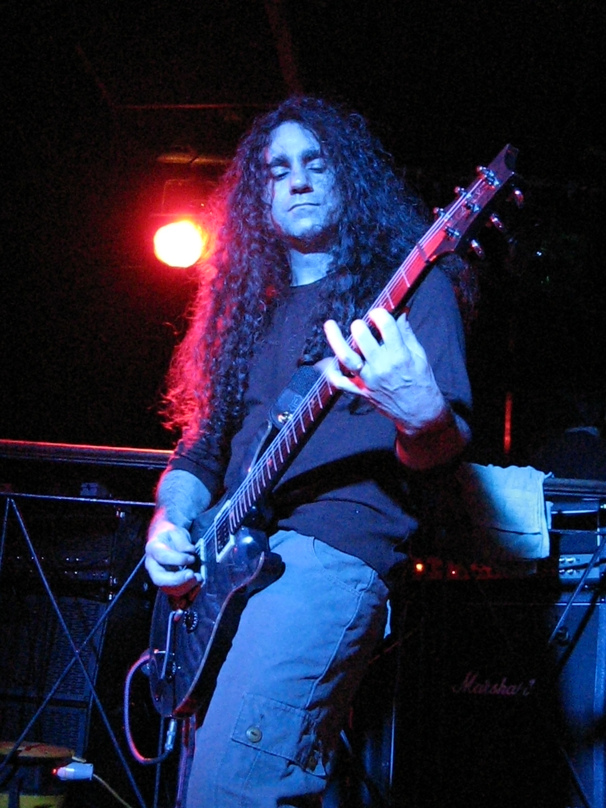 Jim Matheos from Fates Warning at The Underworld in Camden, 2007-11-21.